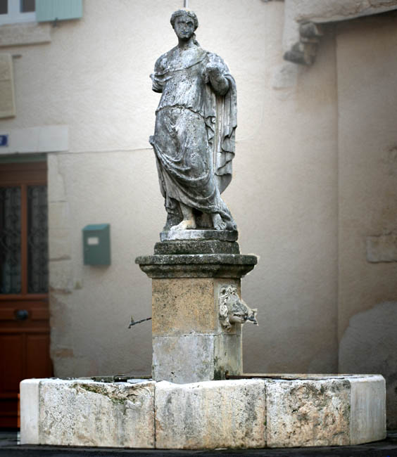 Foutain with statue, Village of La Bastide de Jourdan in Vaucluse, France